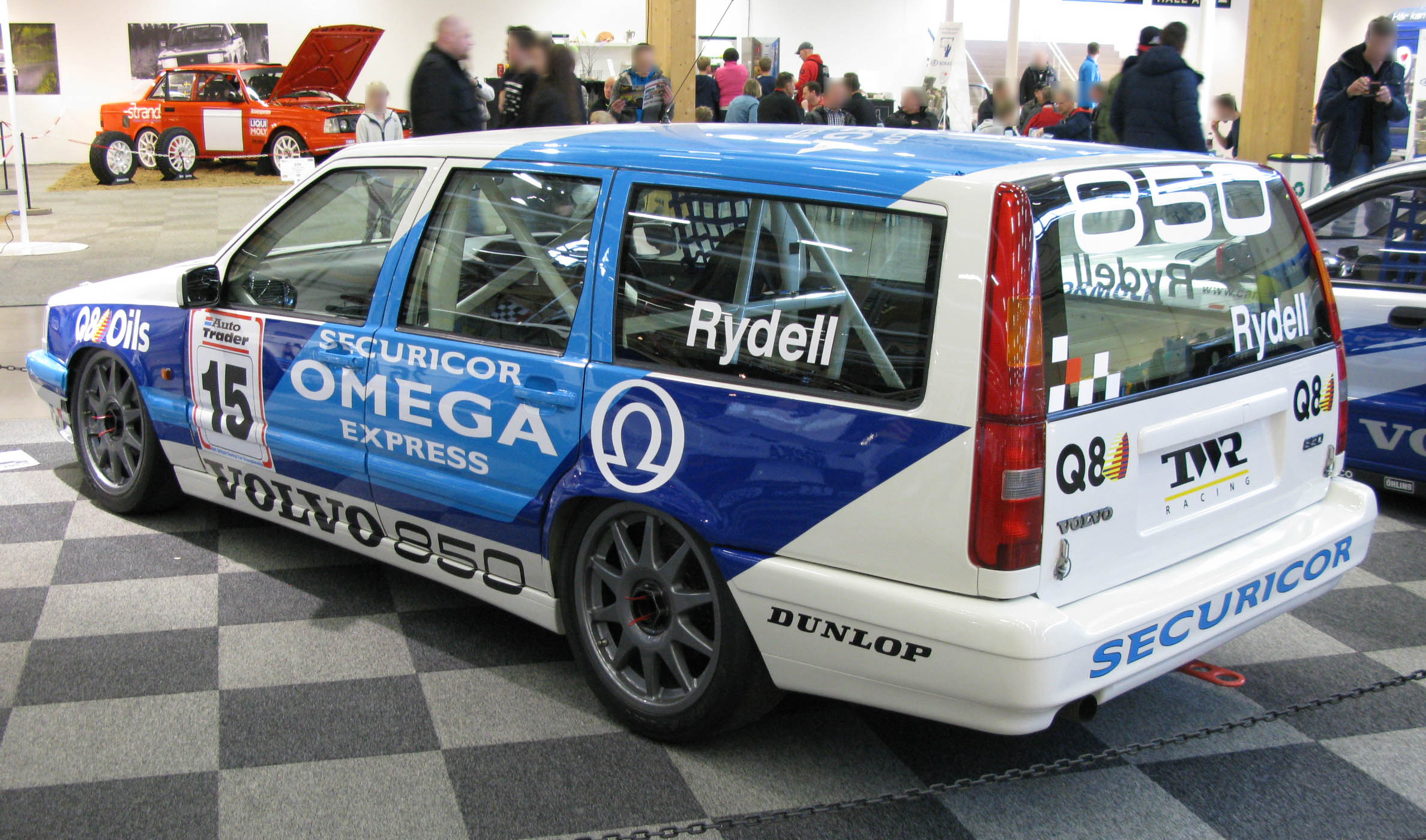 Location: Elmia Custom Motorshow, Jönköping, Sweden